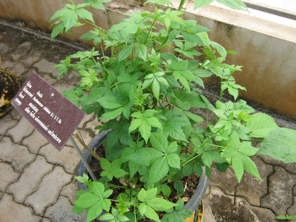 Photographed at the Queen Sirikit Botanic Garden (Chiang Mai Province, Thailand) in March. Wrong description - this is not Eleutherococcus trifoliatus